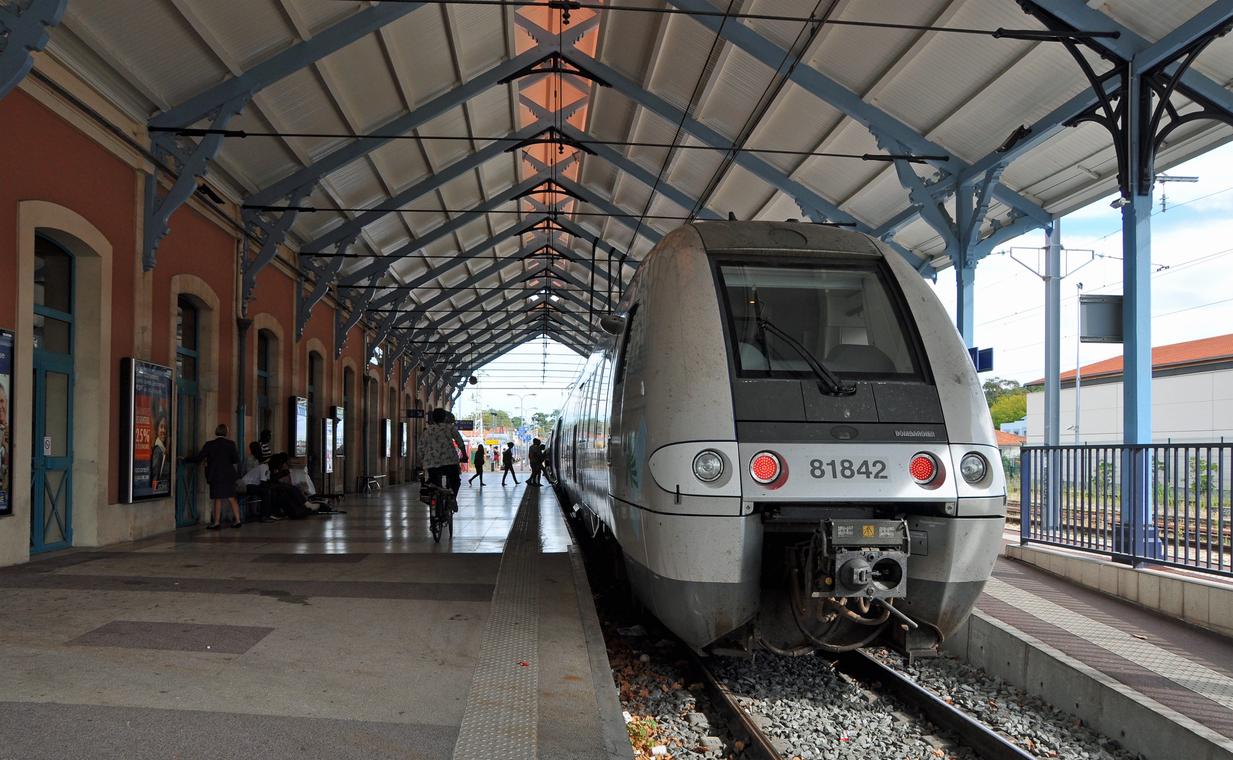 Arcachon (France): train station